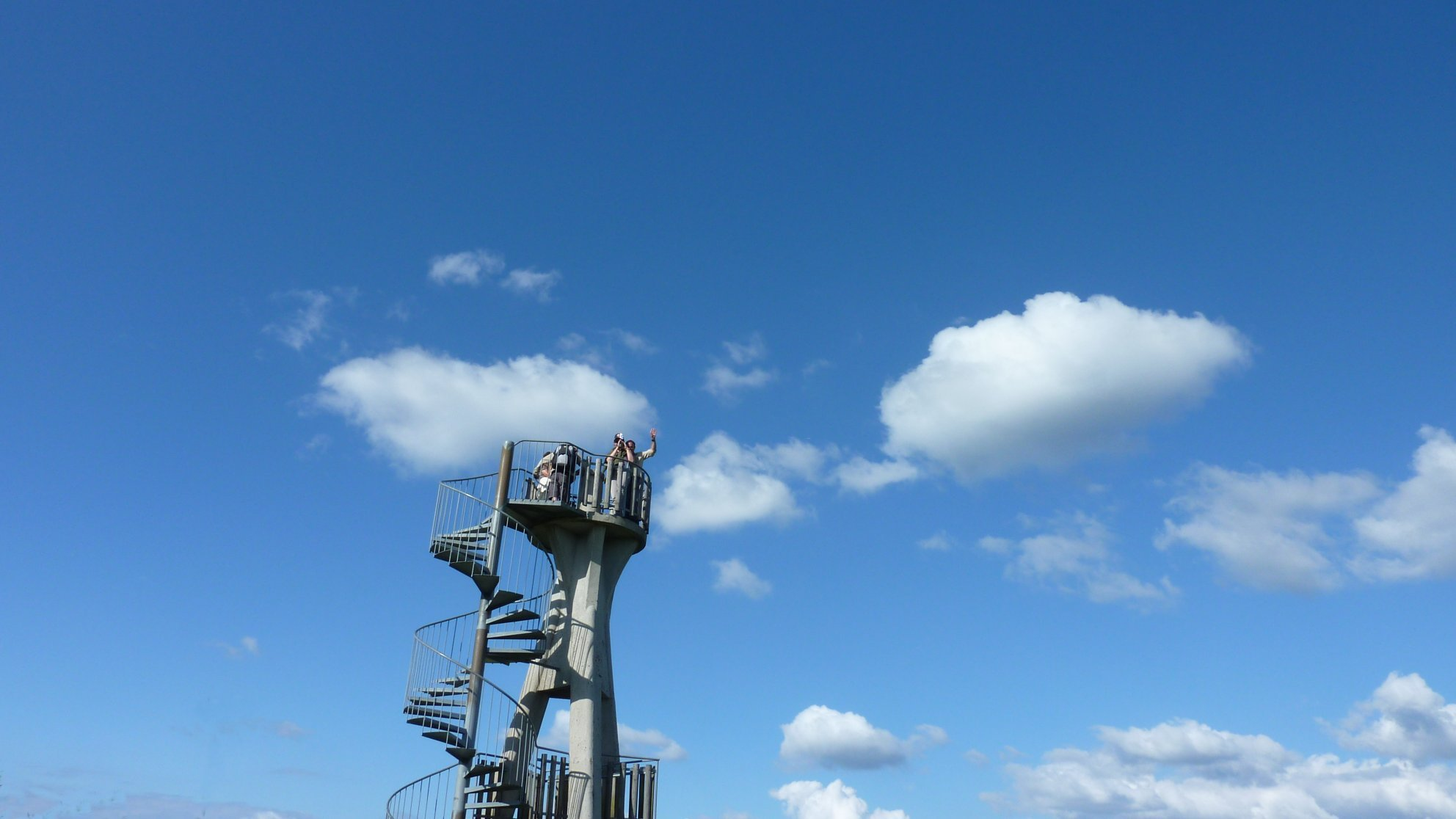 Panoramic platform at "La faux d'enson " in Roche D'or